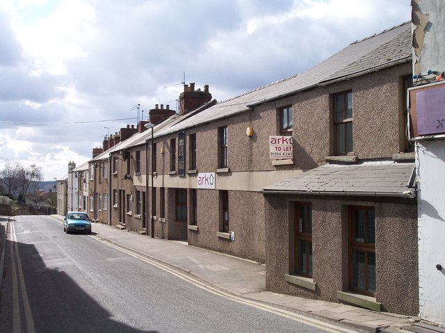 Victoria Street, Cinderford. Looking SSW along the road that for 1100 yards "was made at the expense of the crown for the benefit of the inhabitants and district" in 1897-8, Queen victoria's Diamond Jubilee.